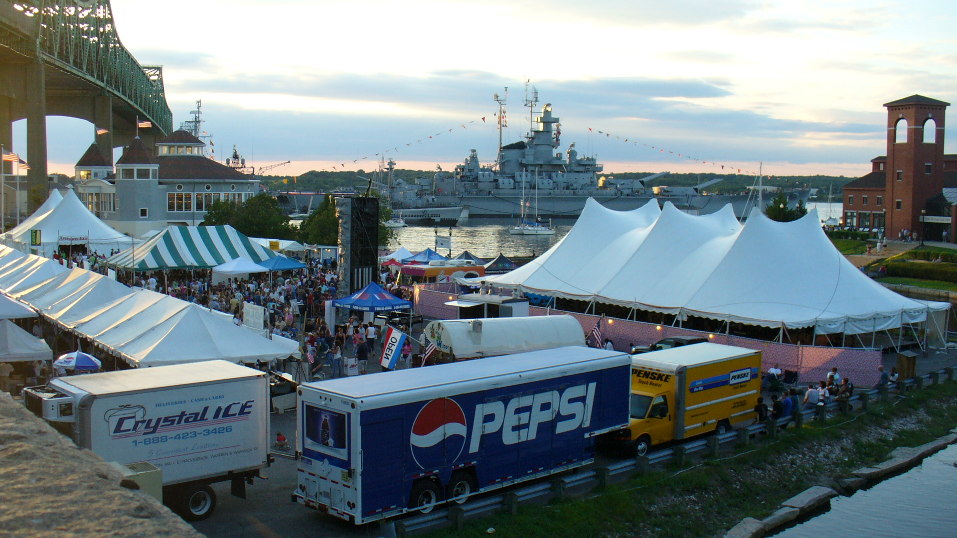 Fall River Celebrates America, Fall River, Massachusetts, 2007